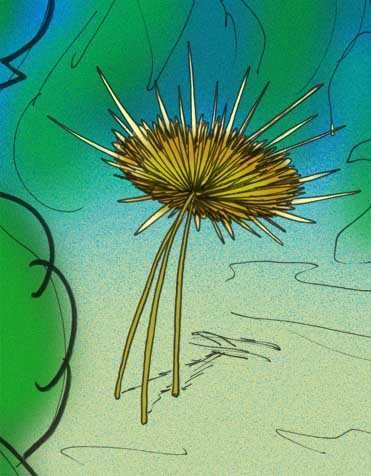 Reconstruction of the primitive demosponge Choia carteri, of the Burgess Shales